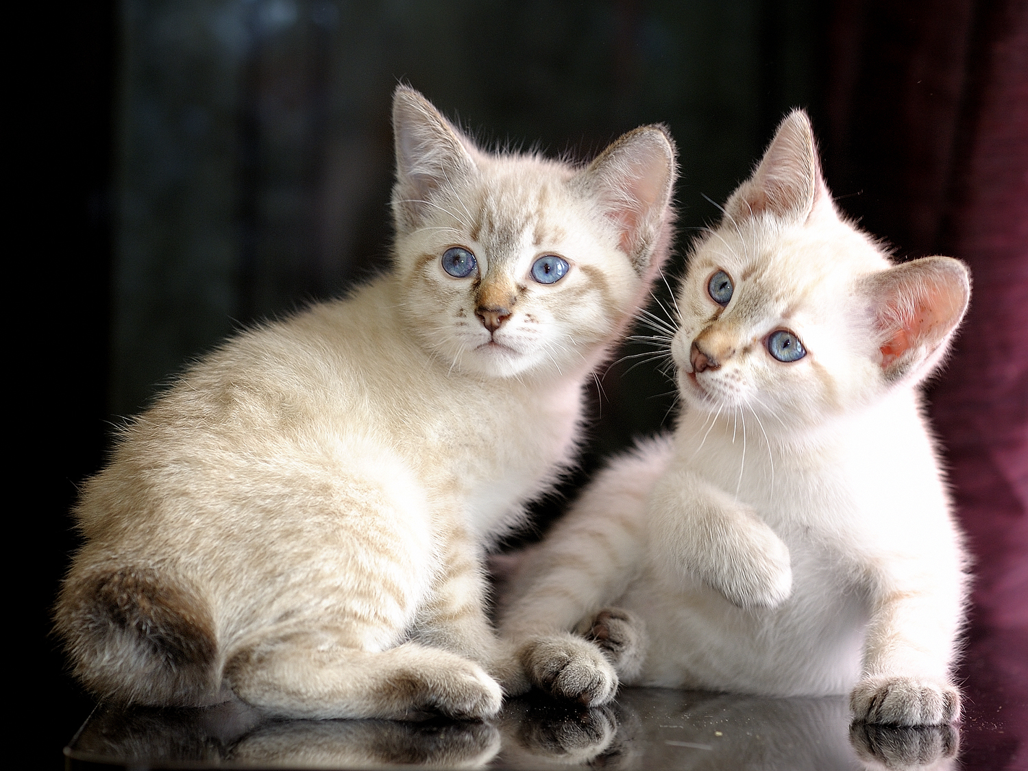 Rare MEKONG BOBTAIL kittens, tabby-point colour. Mekong bobtail cattery Cofein Pride.